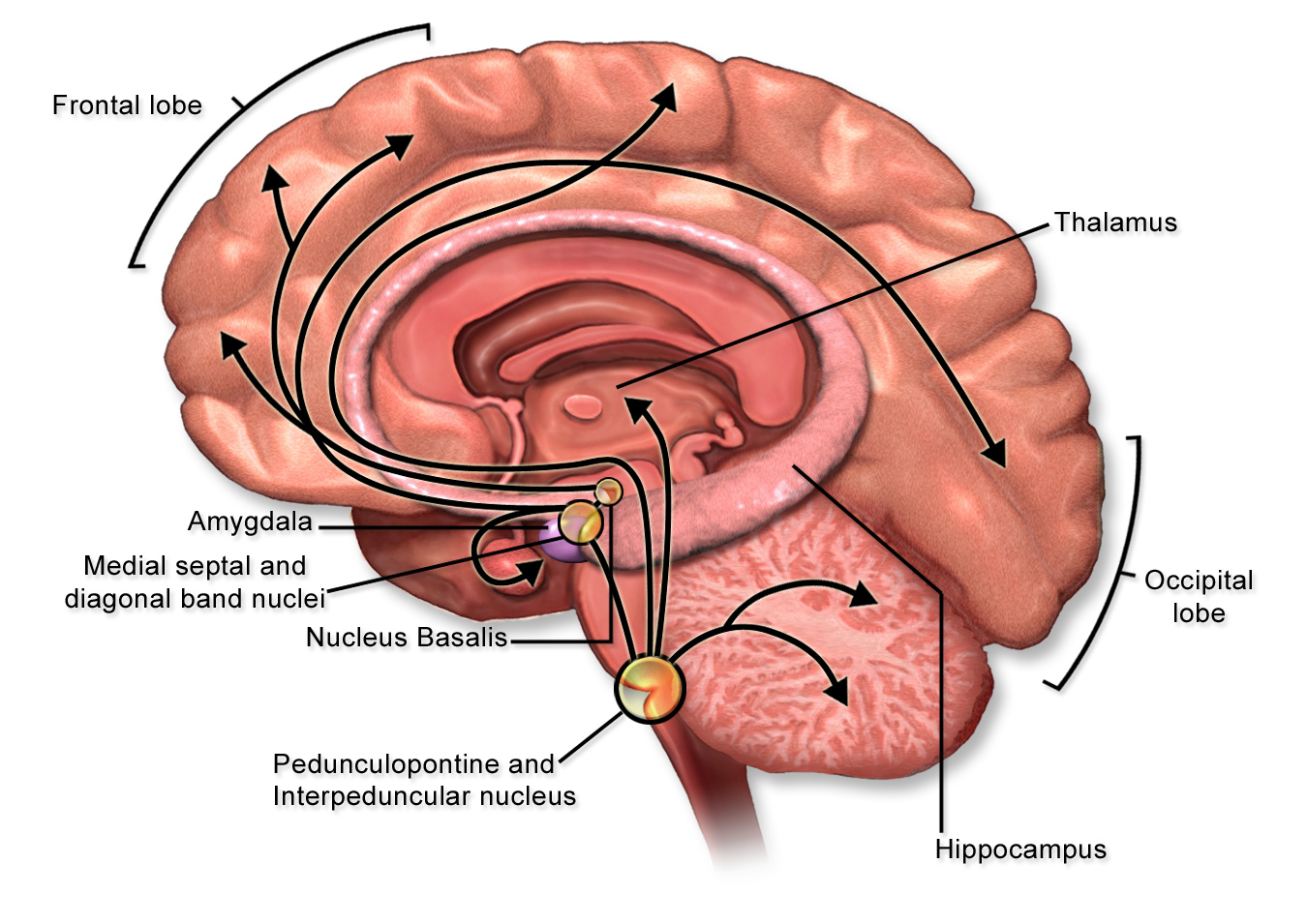 Acetylcholine Pathway. Animation in the reference.[1]